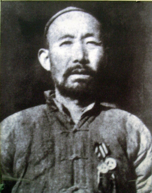 Li Youyuan(1903-1955), a Chinese farmer and singer from northern Shaanxi. He was known as the author of the song "The East Is Red".The Photo was published more than 60 years, according to the copyright law in China, it has been in public domain.